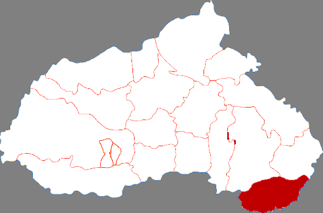 Location of Linxi county in Xingtai City, China